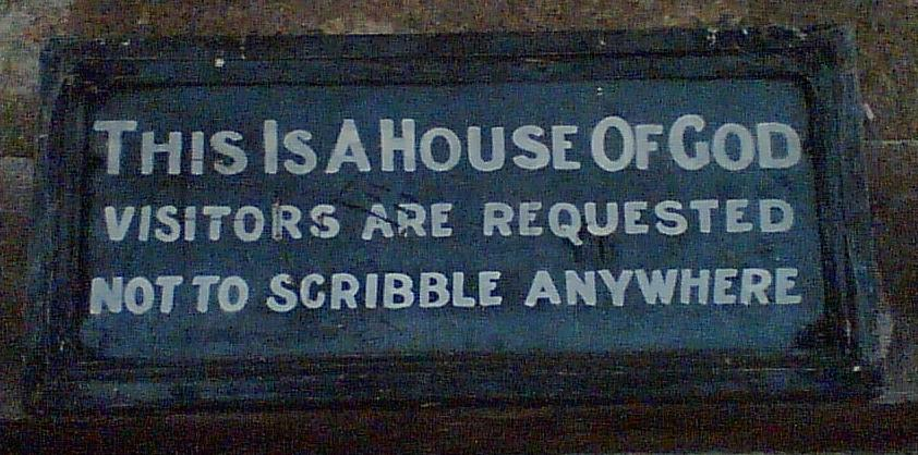 Photo of sign in Llangylennin Church porch. Taken by me, 7.1.07, and released to the Public Domain Hogyn Lleol 20:12, 7 January 2007 (UTC)